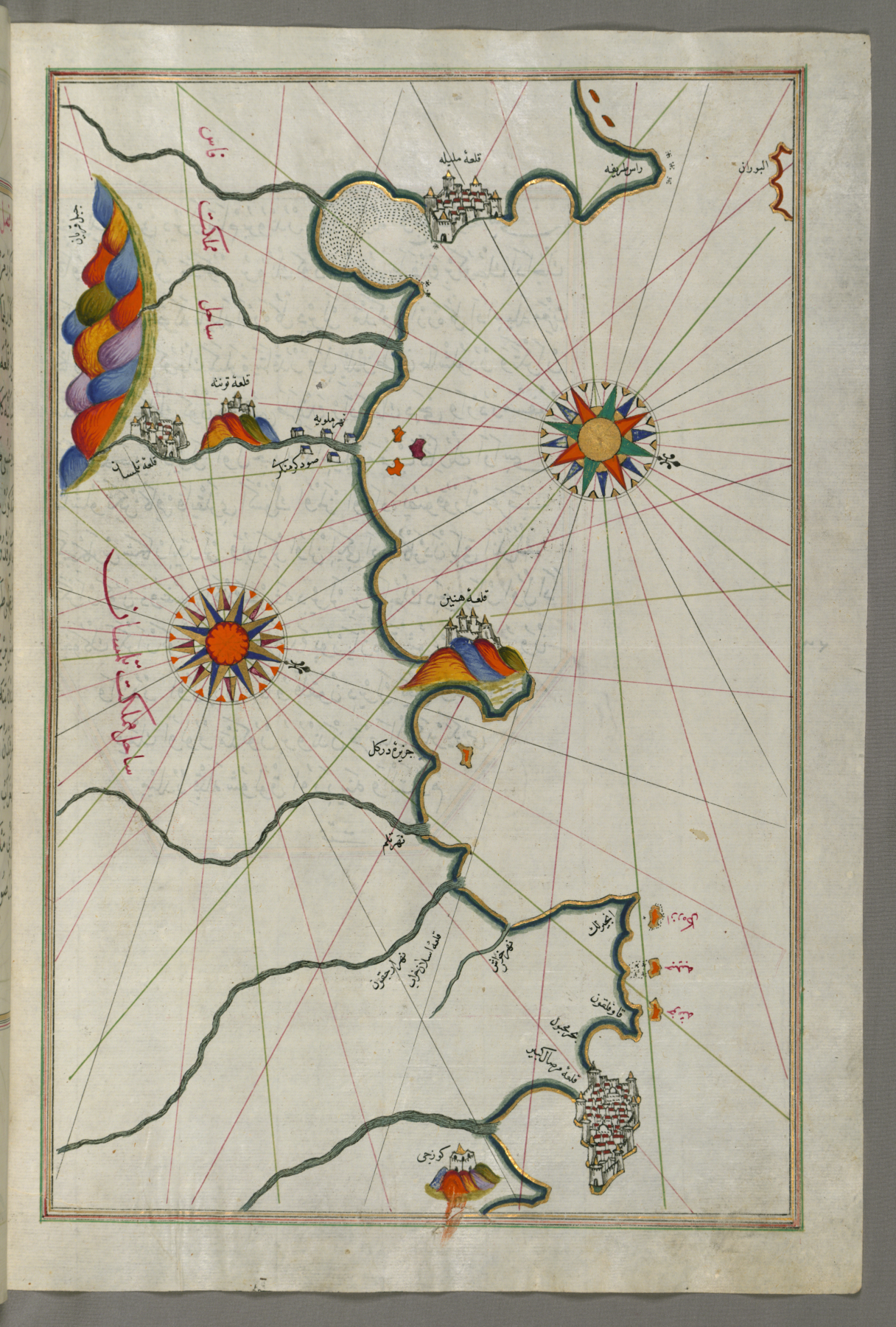 This folio from Walters manuscript W.658 contains a map of the Moroccan and Algerian coast from Melilla (Malilah) and northwest of Tlemcen (Tilimsan).